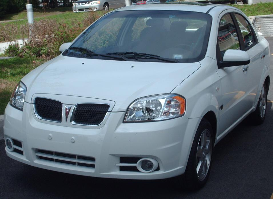 2007 Pontiac Wave photographed in Montreal, Quebec, Canada.